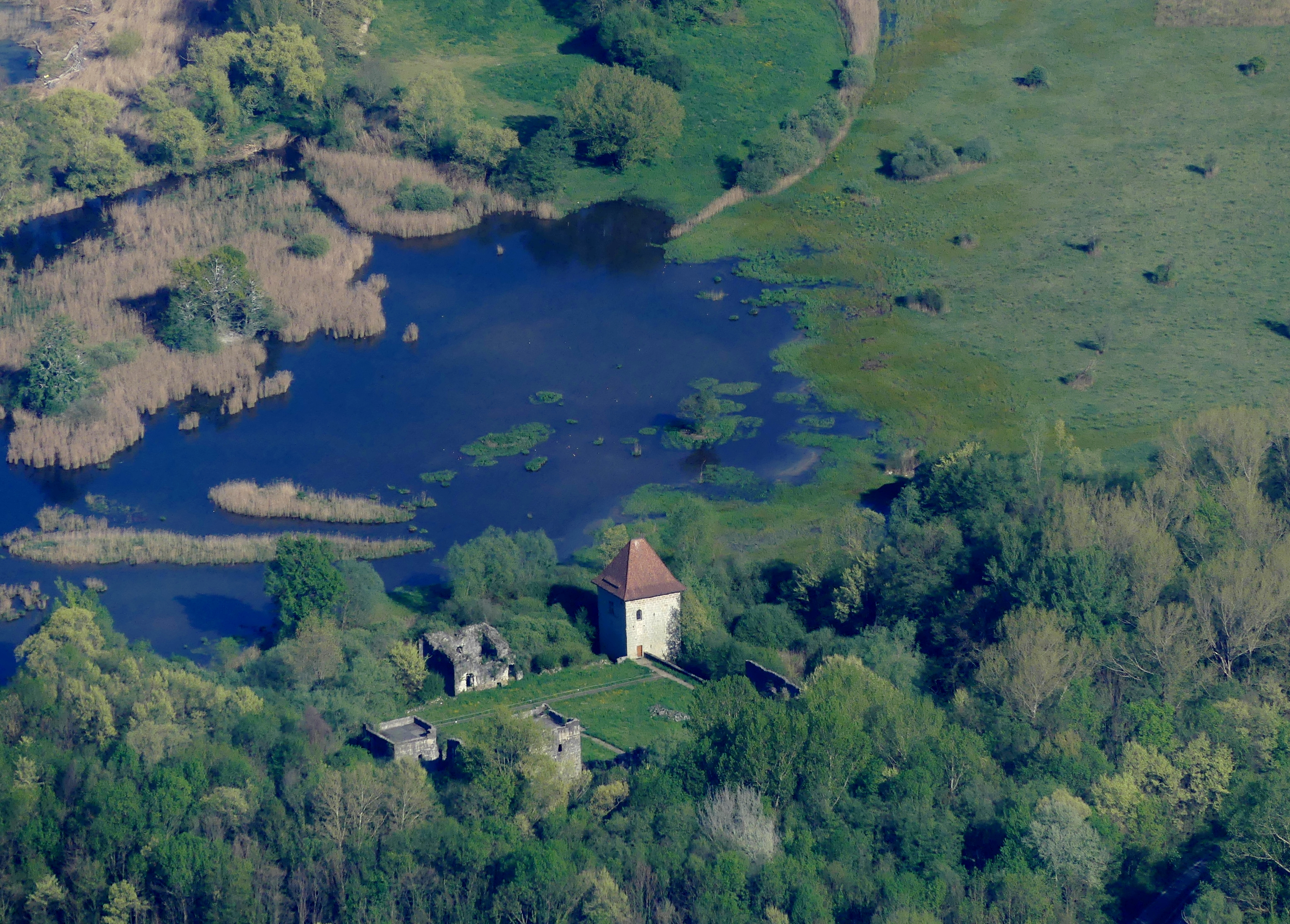 Sight, from the top of the Mont du Chat mountain (1,500 meters high), of the Bourget castle and a swamp of the natural Domaine de Buttet wetland, at the Southern side of the Bourget lake, in Savoie, France.